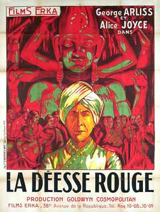 The Green Goddess, (1923), production Goldwyn Cosmopolitan, réalisation Sidney Olcott, avec George Arliss, Alice Joyce, Jetta Goudal